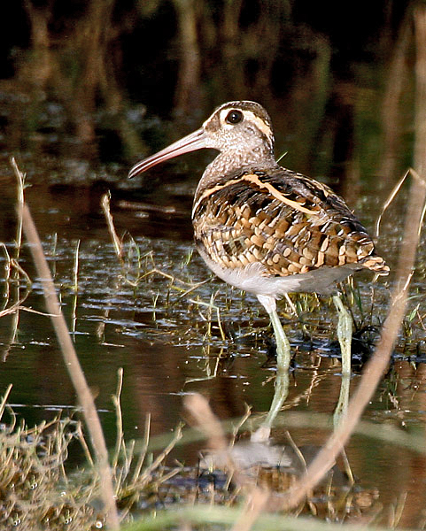 A male Greater Painted-snipe (Rostratula benghalensis) at Hodal in Faridabad District of Haryana, India.